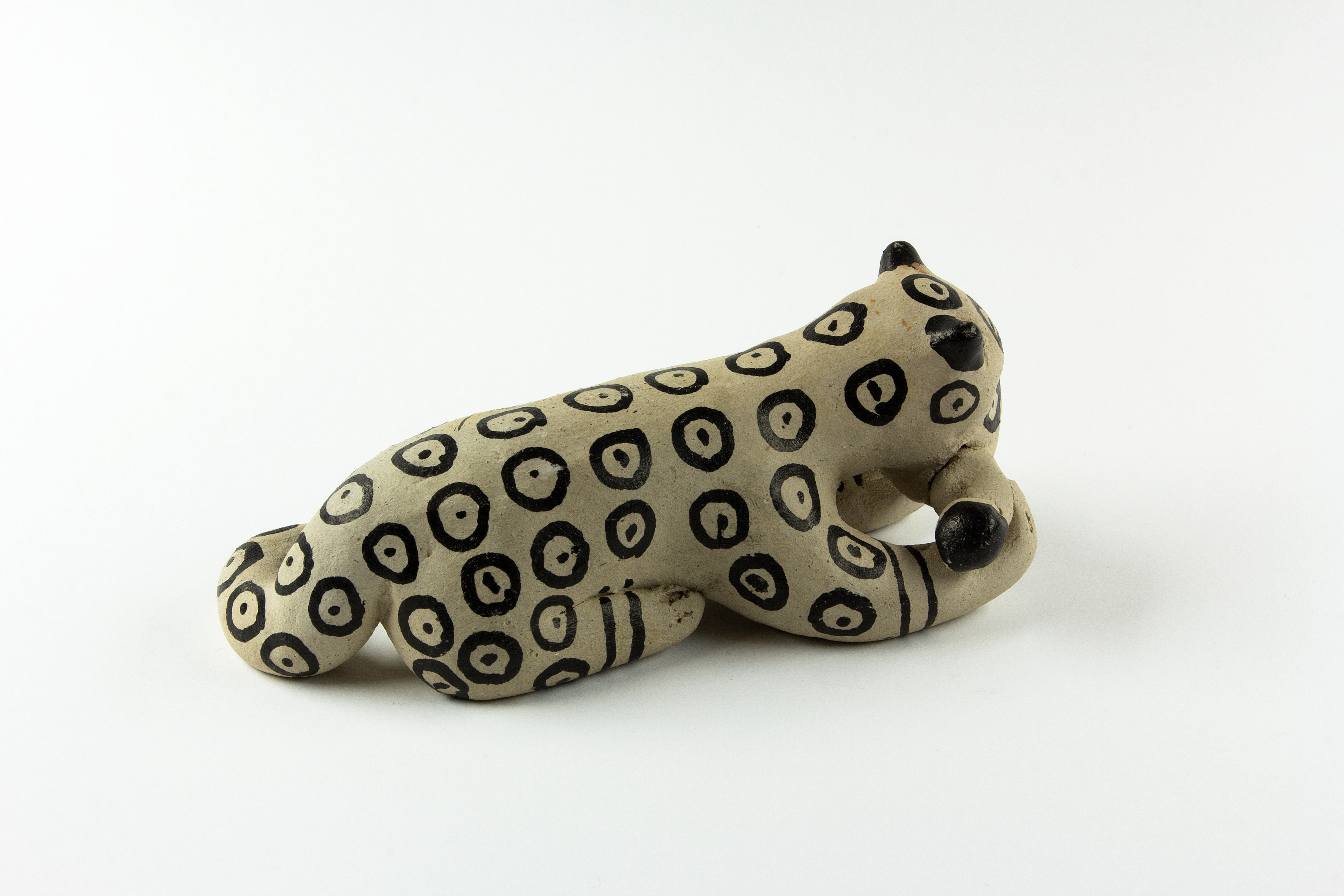 jaguar with prey in the mouth size : 4,5 x 4,7 x 11,0 cm material : clay technique : ceramic